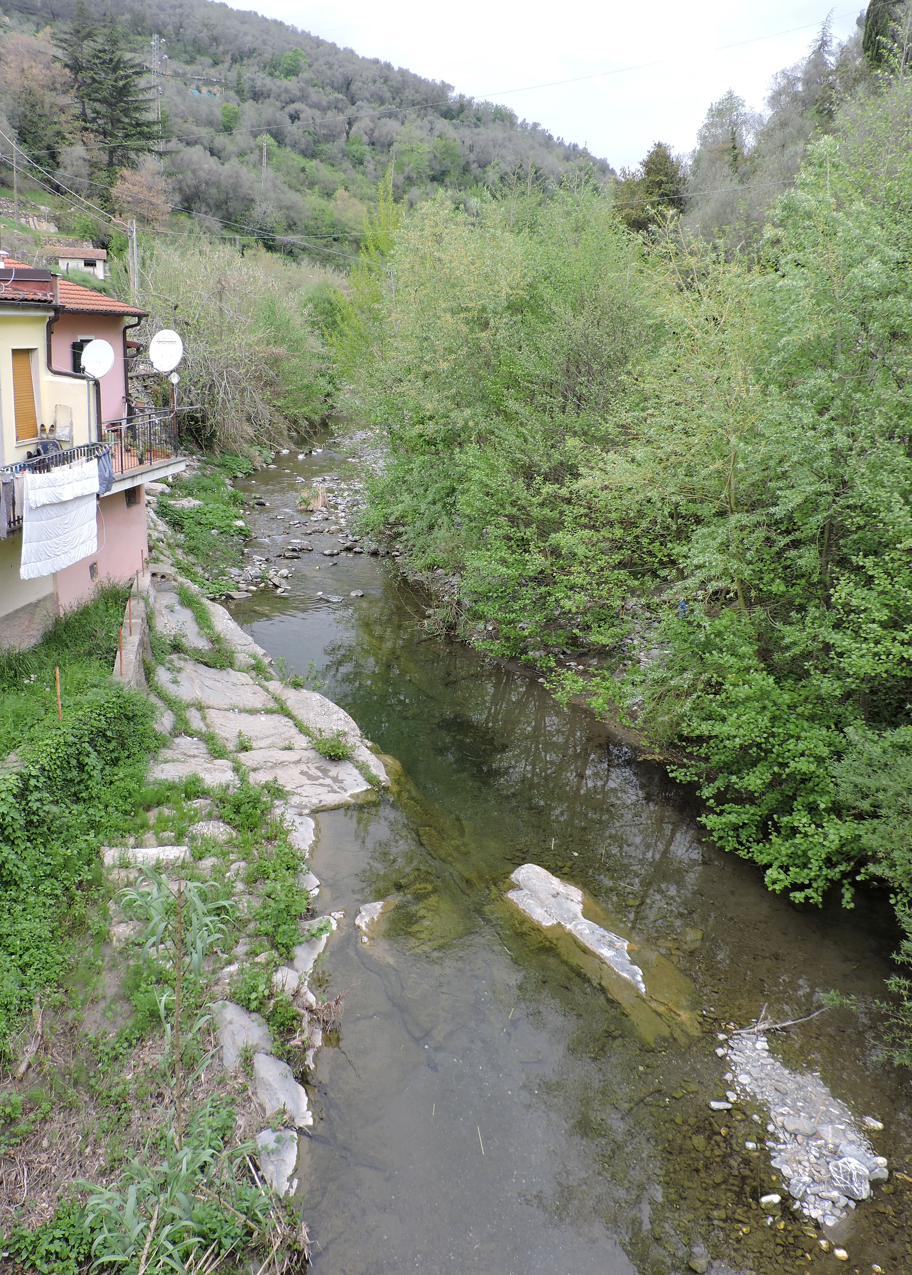 Trexenda creek in San Lazzaro Reale (Borgomaro, IM, Italy)